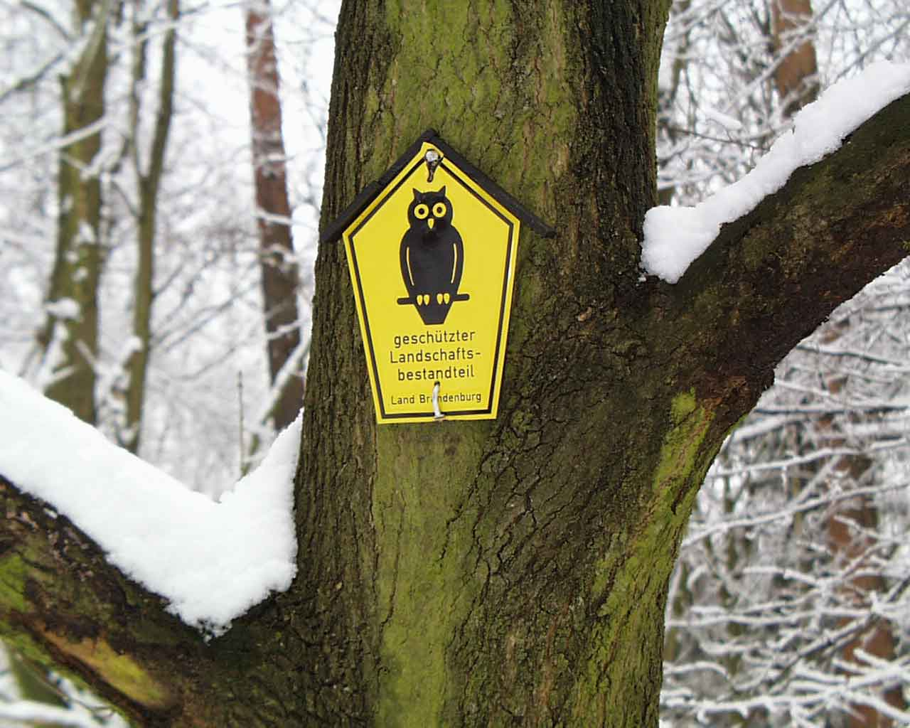 Protected landscape element ("Geschützter Landschaftsbestandteil") sign in Brandenburg, Germany